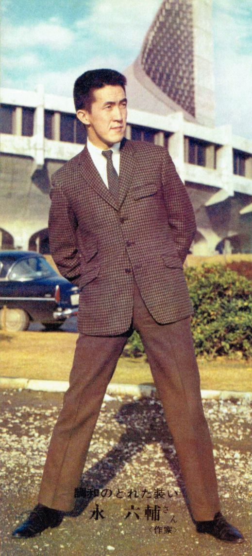 Rokusuke Ei